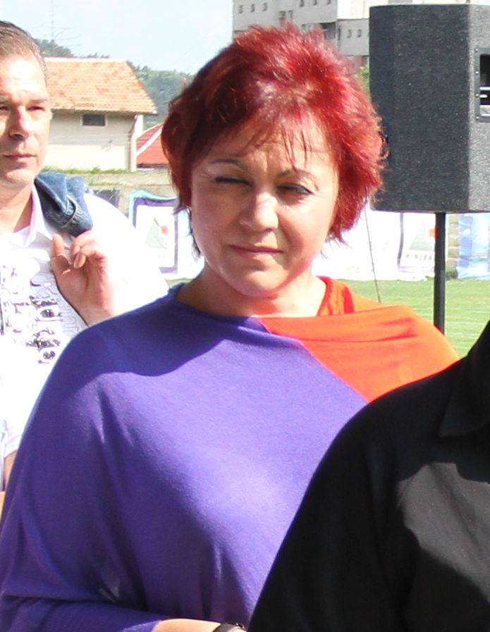 Kornelia Petrova Ninova - Bulgarian politician, MP from the parliamentary group of the Bulgarian Socialist Party. Chairman of BSP since 8 May 2016.